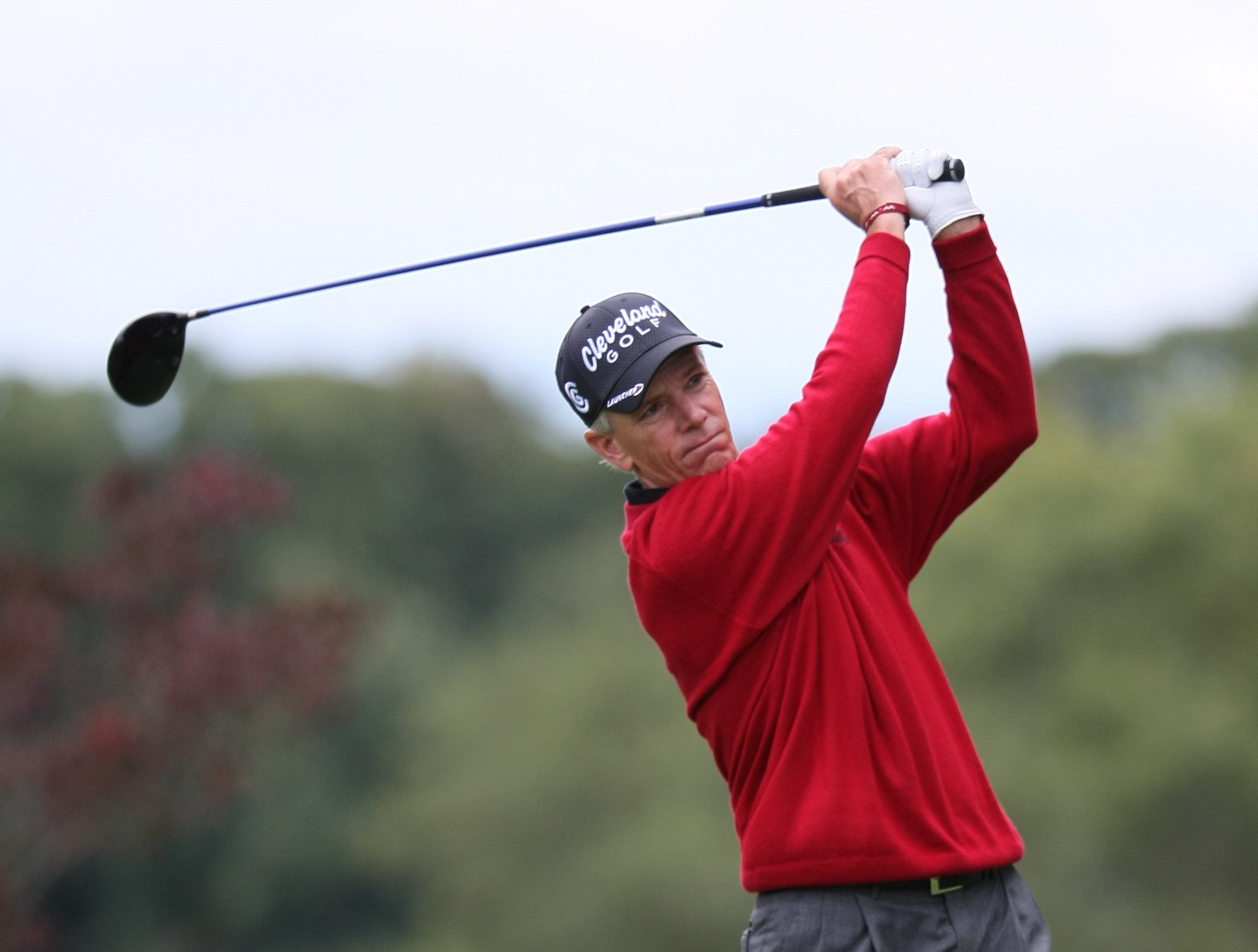 Constellation Energy Senior Players Championship Pro-Am held at Baltimore Country Club/Five Farms (East Course) on September 30, 2009 in Timonium, Maryland